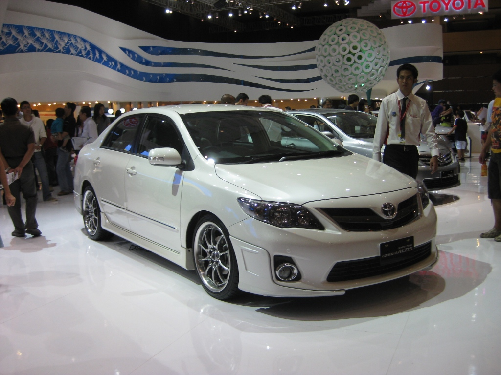 The facelift model Toyota Corolla Altis 2.0 V (ZRE143R-GRXVKD) shown in Pearl White (colour code 070), photographed at the 2010 Indonesia International Motor Show in Jakarta.